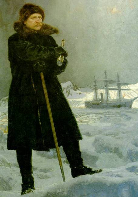 Detail